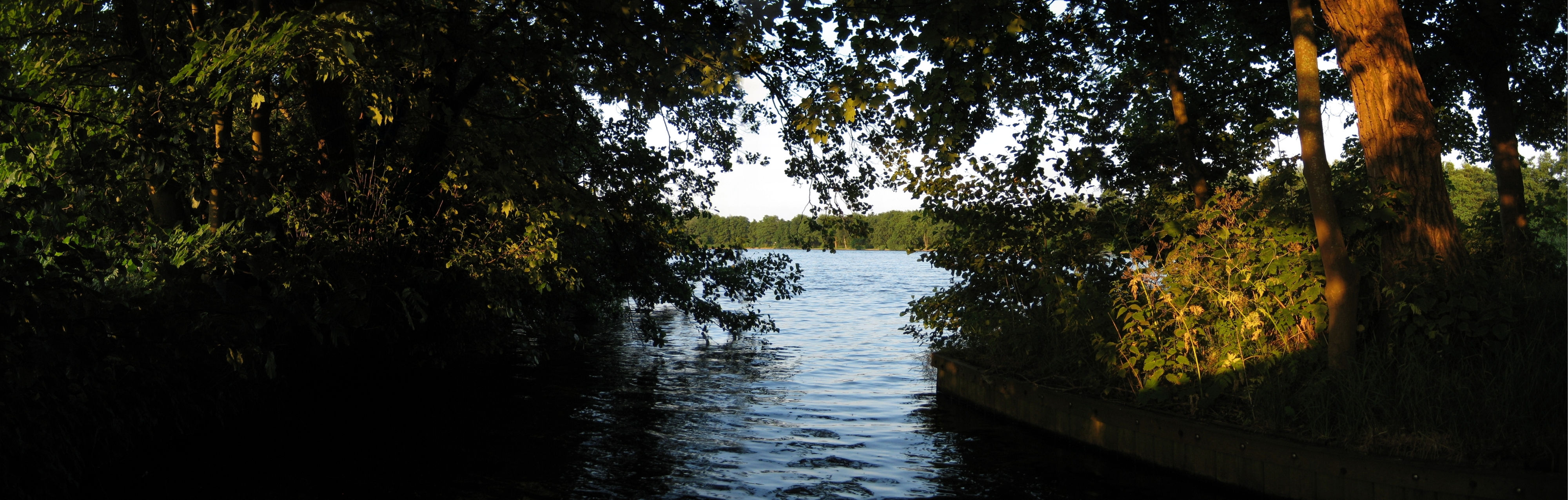 Sassenhein, a small nature reserve southwest of the Dutch village of Haren.